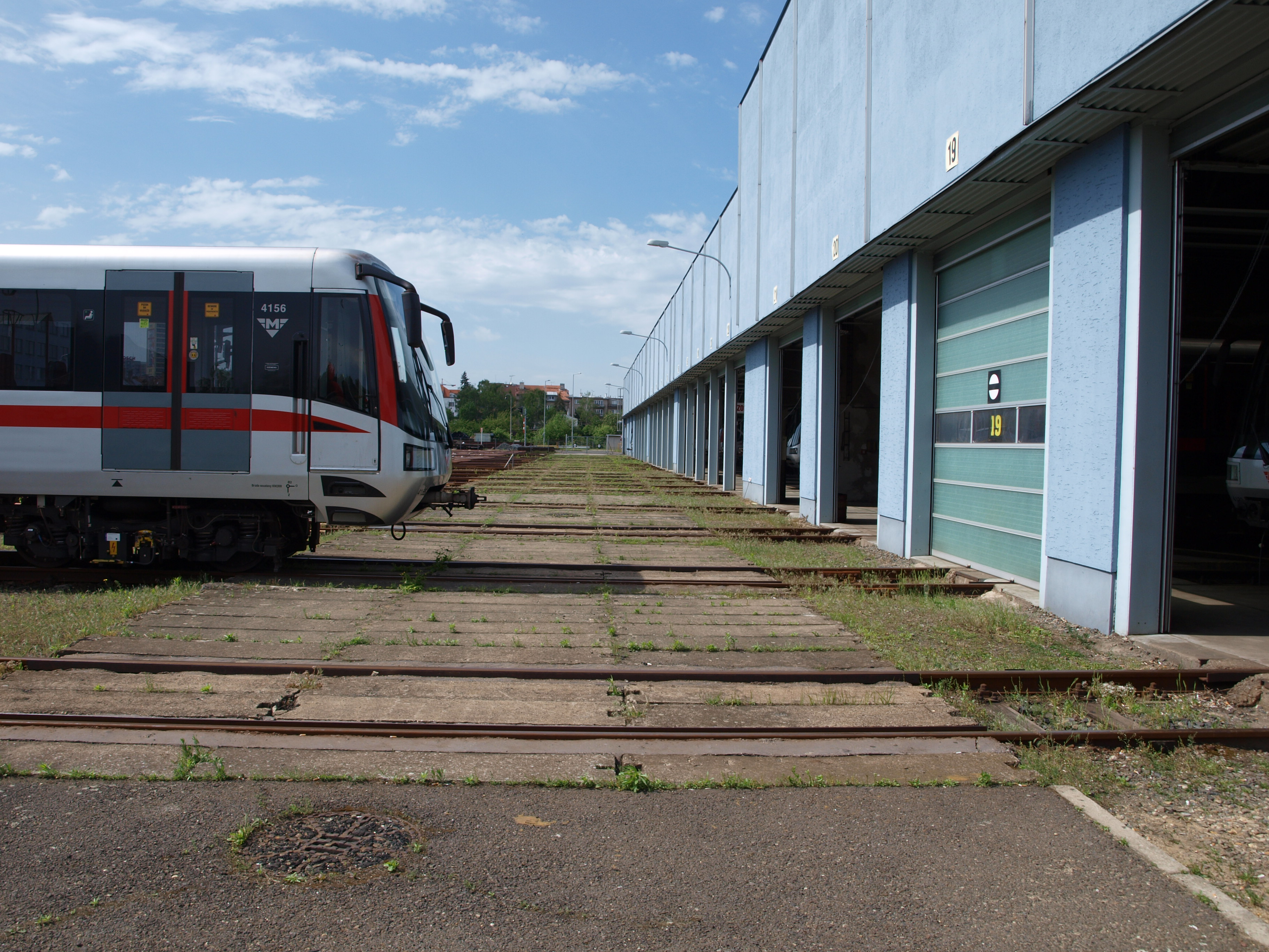 M1 multiple unit in front of Kačerov depot, Prague Metro